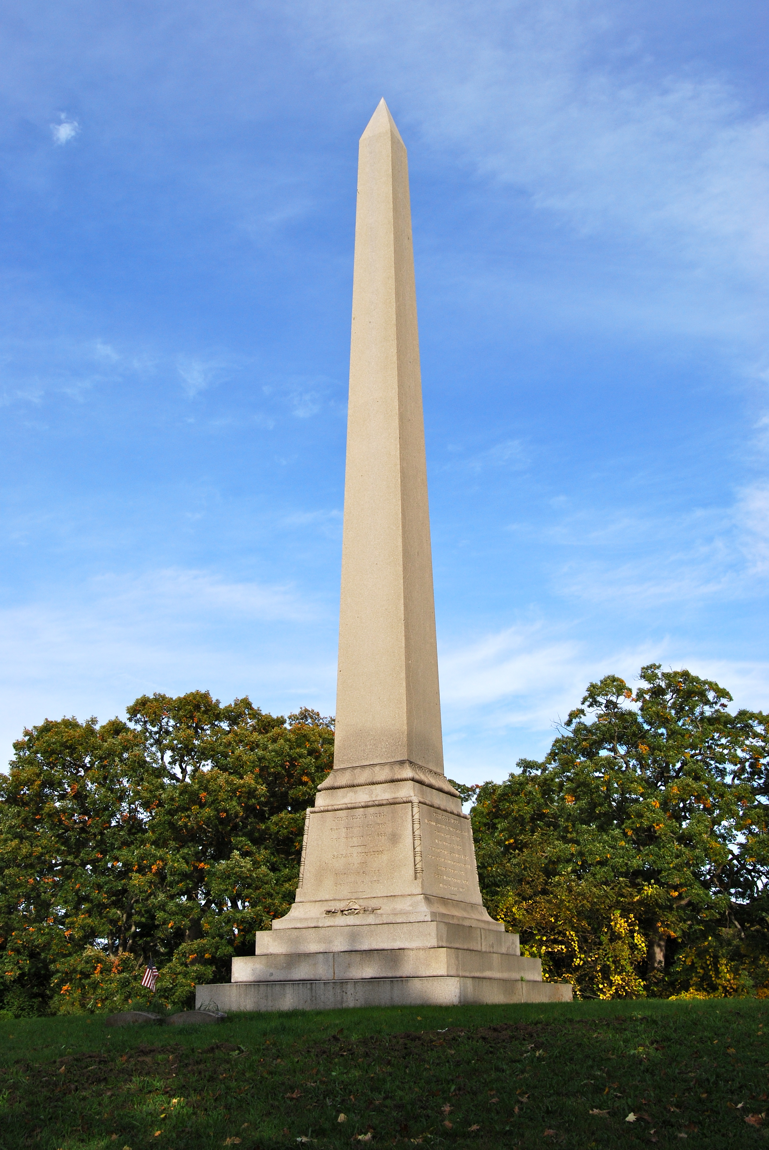 Monument (and grave) to General John E. Wool, commander-in-chief of the American forces during the Mexican-American War, at Oakwood Cemetery in Troy, New York, United States. The monument is a monolithic obelisk about 76.5 feet (23.3 m) tall with a weight exceeding 100 tons (91 metric tons).